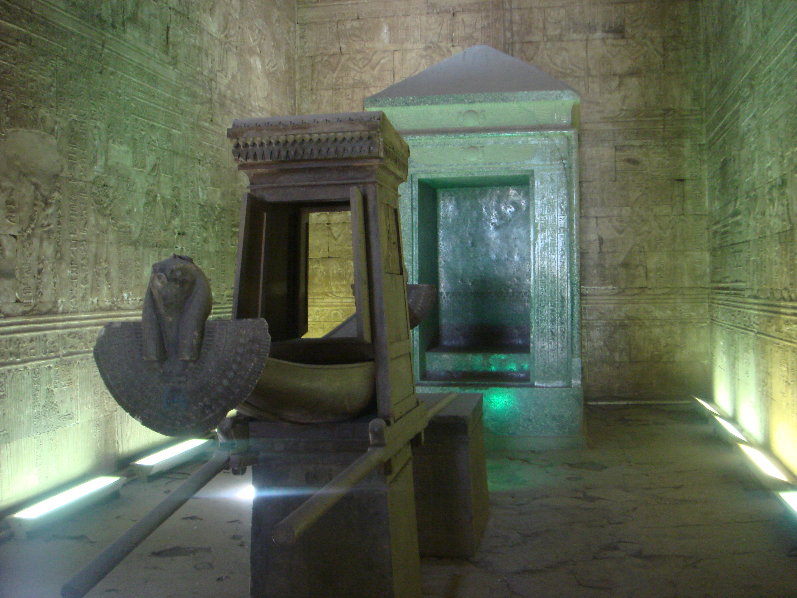 The inner sanctuary in the centre of the Temple of Edfu at Edfu, Egypt.